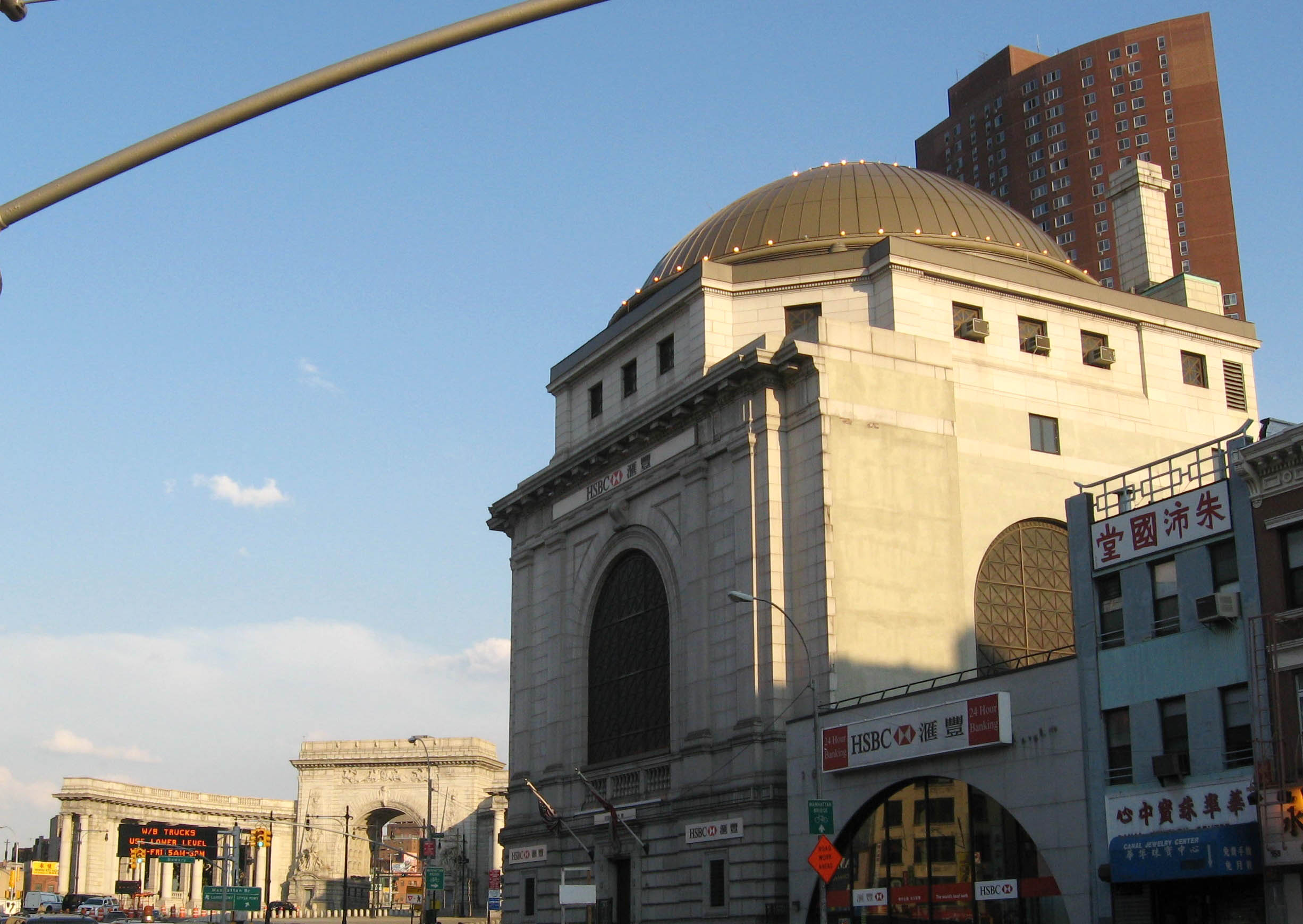 Looking southeast across Canal Street on a late afternoon at former Citizens Bank, and across Bowery at archway of Manhattan Bridge. See File:Bowery Canal Cit Sav clock jeh.JPG for other side of bank.